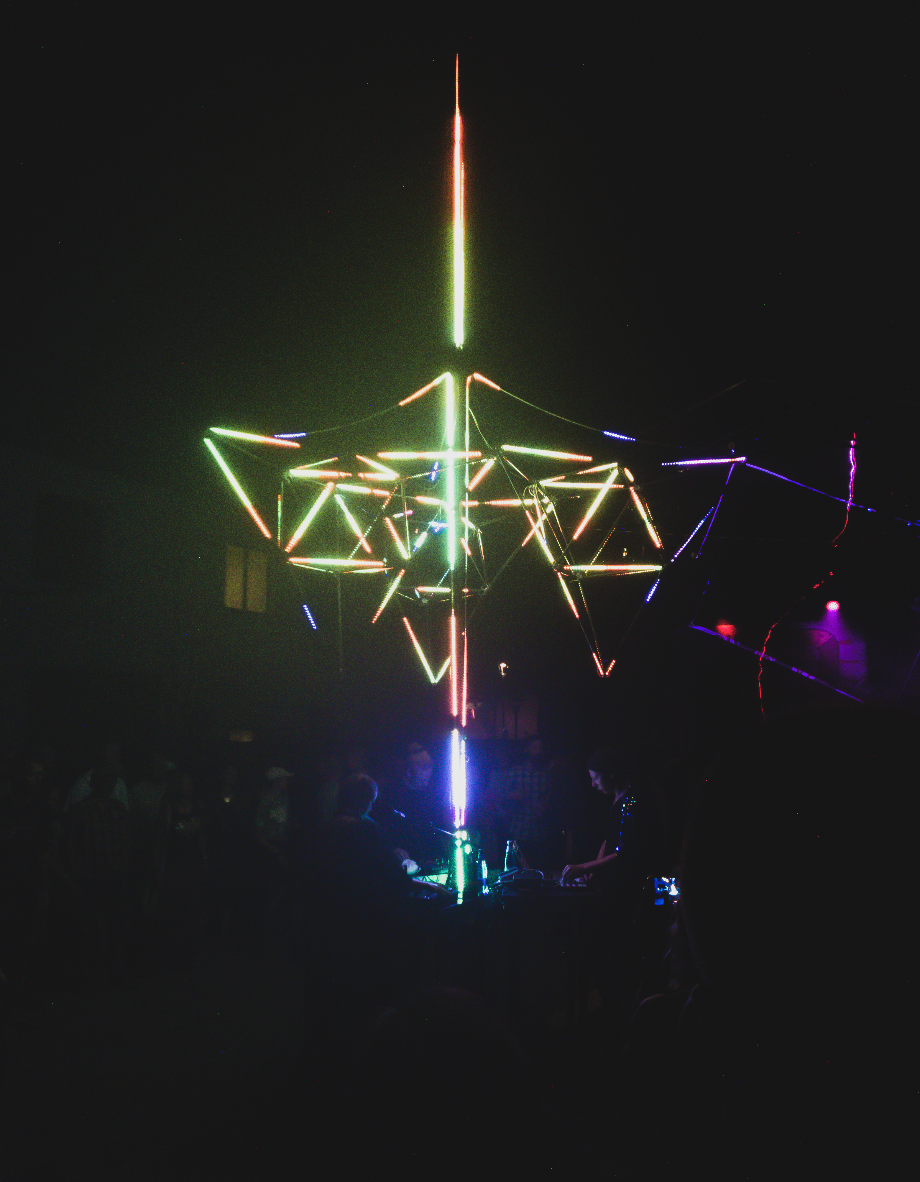 OOPUS performing live at Viljandi Folk Music Festival 2018